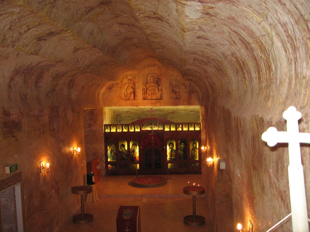 Interior of the Serbian Orthodox Church in Coober Pedy, South Australia. Like many of the dwellings in Coober Pedy, the church is a dugout, which is essentially a chamber drilled into the side of a hill. After the drilling is complete, the rock is sealed with polyurethane or similar sealant, and that forms the walls that you see.